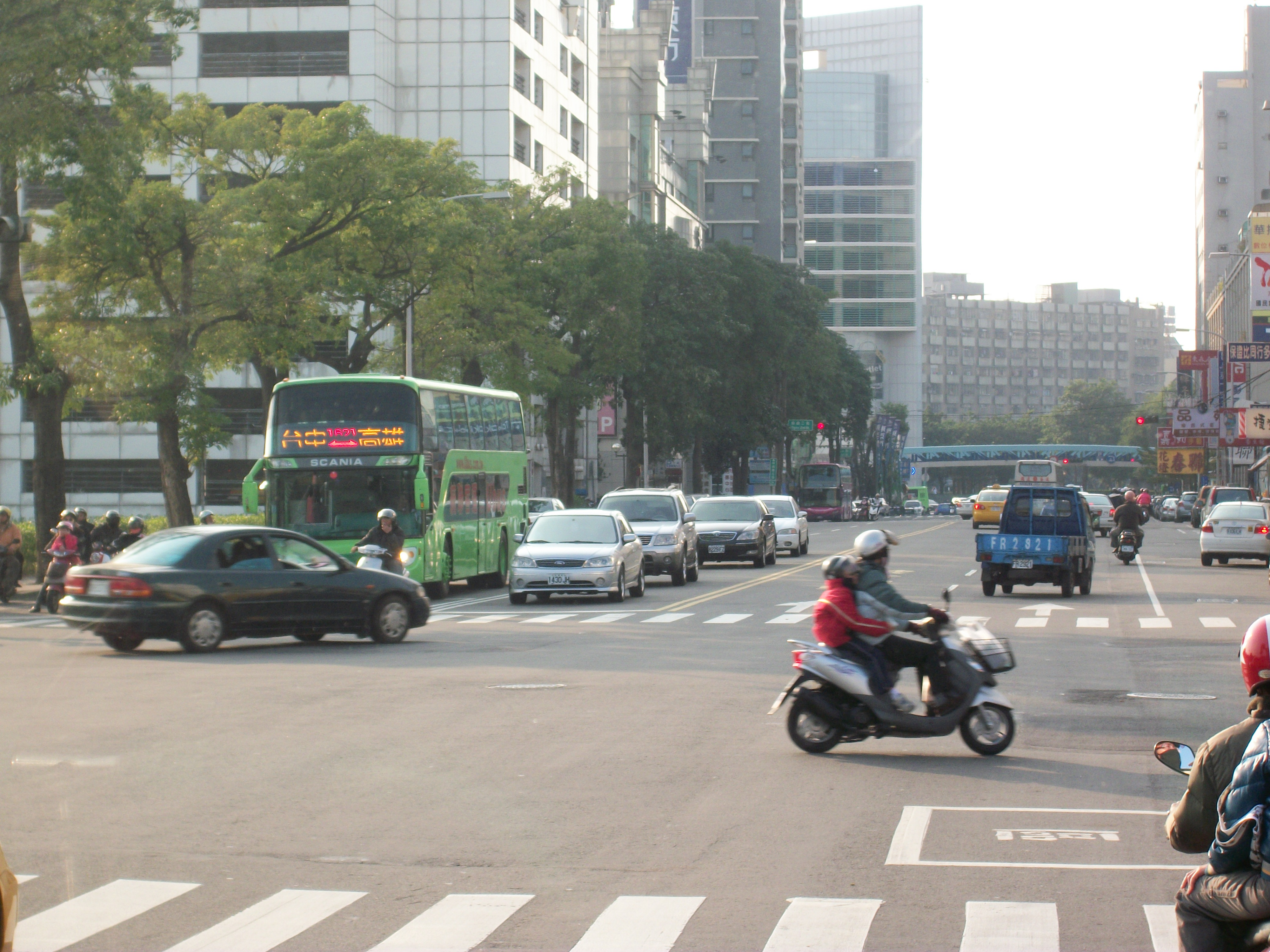 Looking westward alongside the Zihyou Road in Taichung City,Taiwan.The photo was taken from the intersection of Fuxing Road.